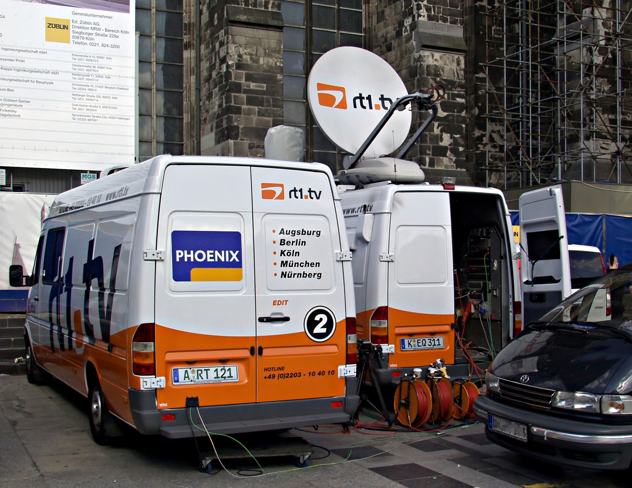 Outside broadcasting vans of rt1.tv in Cologne, Roncalliplatz.